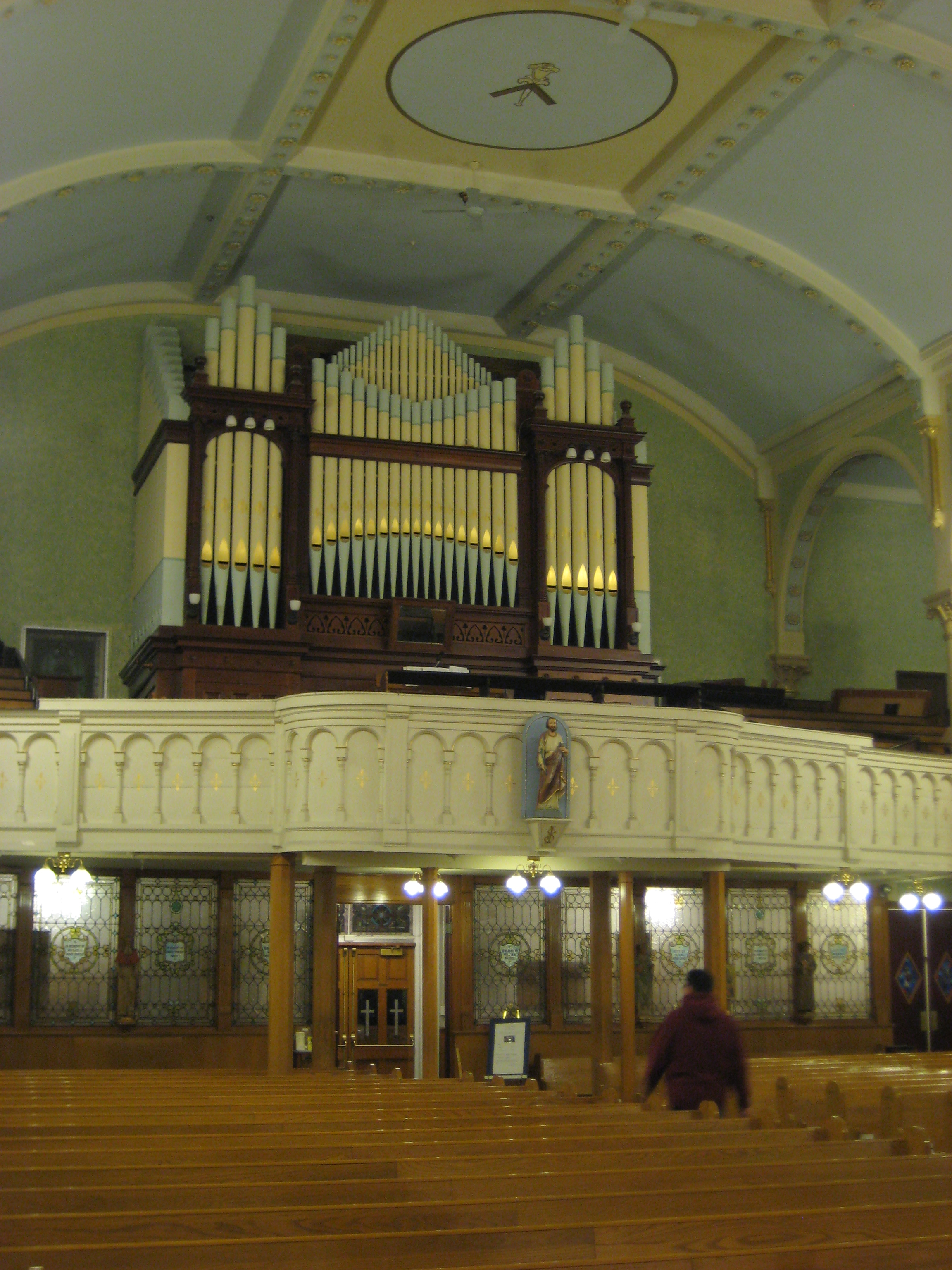 Organ and choir loft of St. Joseph Catholic Church in the West End of Boston. February 2009 photo by John Stephen Dwyer